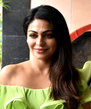 Diljit Dosanjh and Neeru Bajwa snapped promoting their Punjabi film ‘Shadaa’